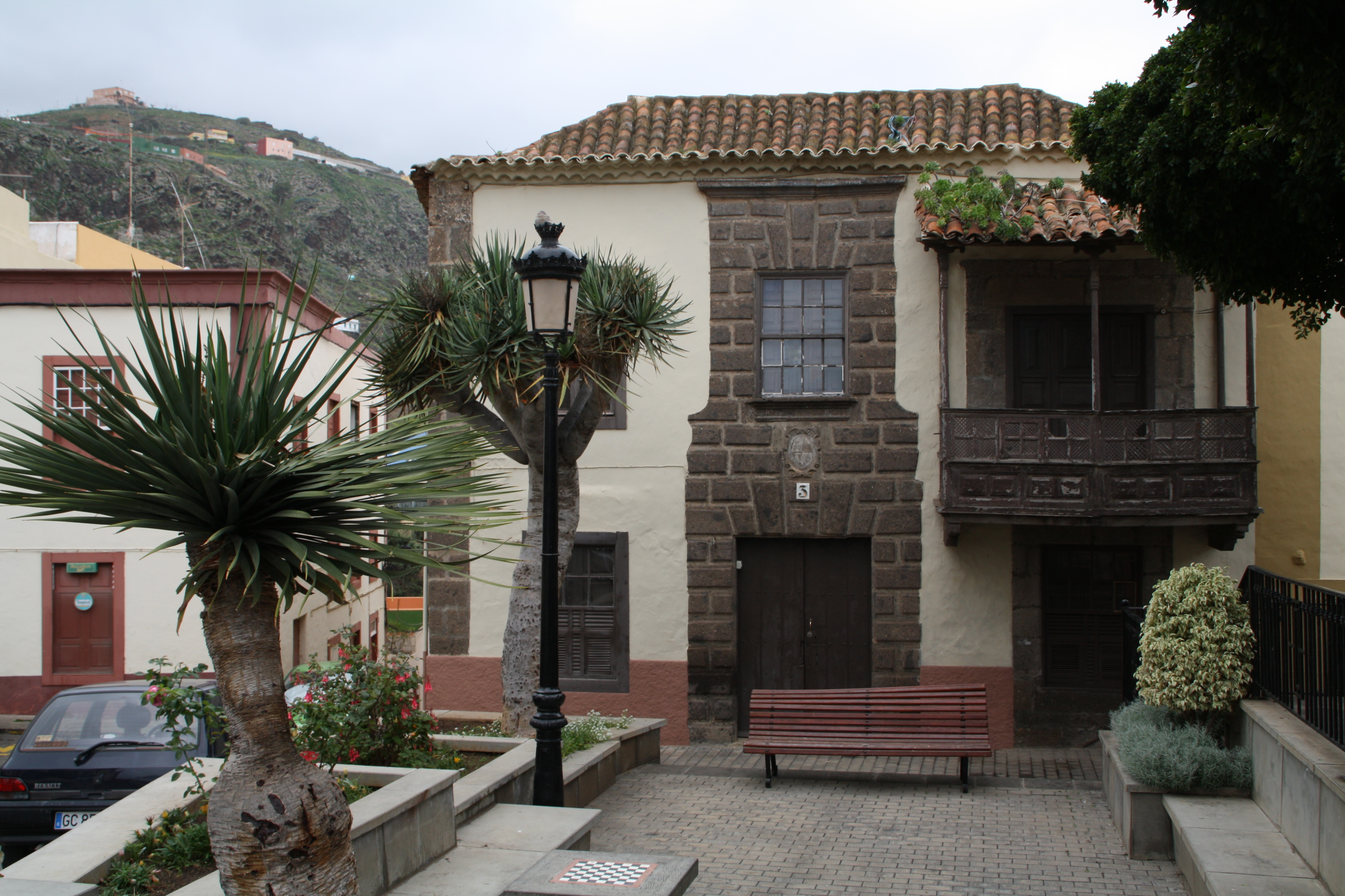 Casa de Quintana, Santa María de Guía, Gran Canaria